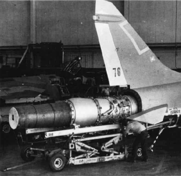 An Allison TF41 turbofan engine of a U.S. Navy Ling Temco Vought A-7E-4-CV Corsair II (BuNo 156809).